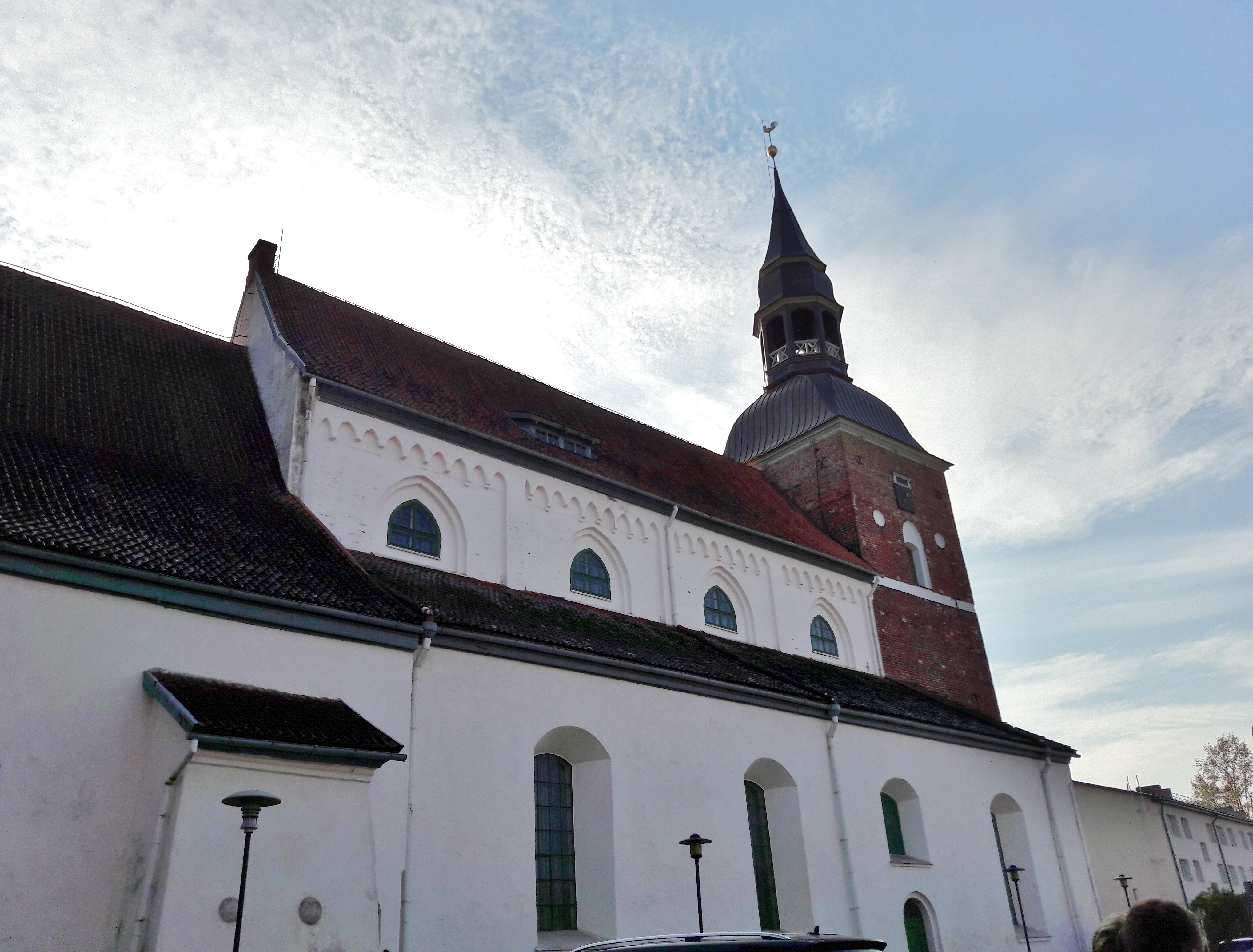 Church of Saint Simon in Valmiera in 2016